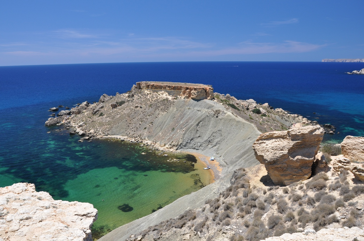 Gnejna Bay at the northwest coast of Malta.